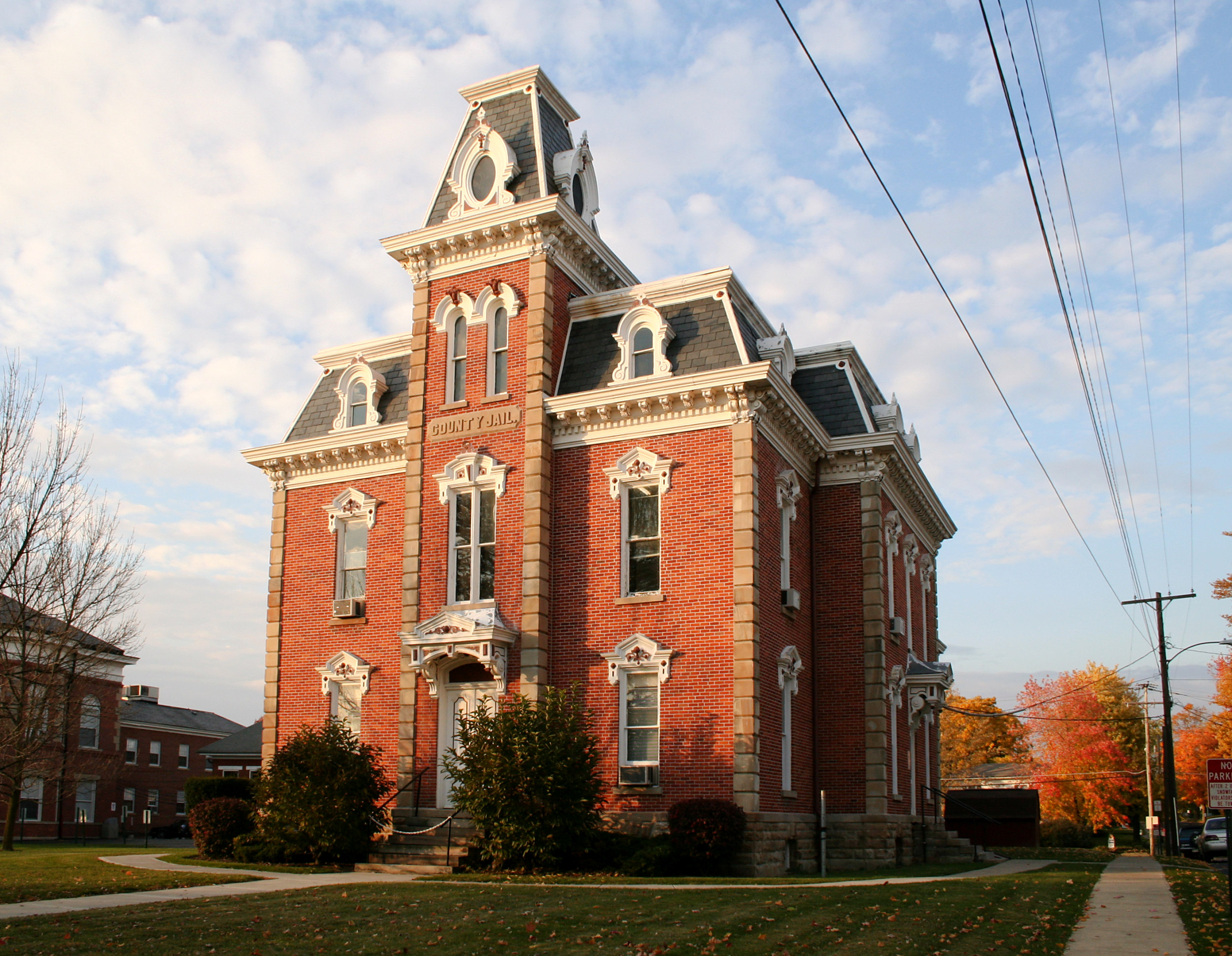 Morrow County jail in Mount Gilead, Ohio, a Second Empire.